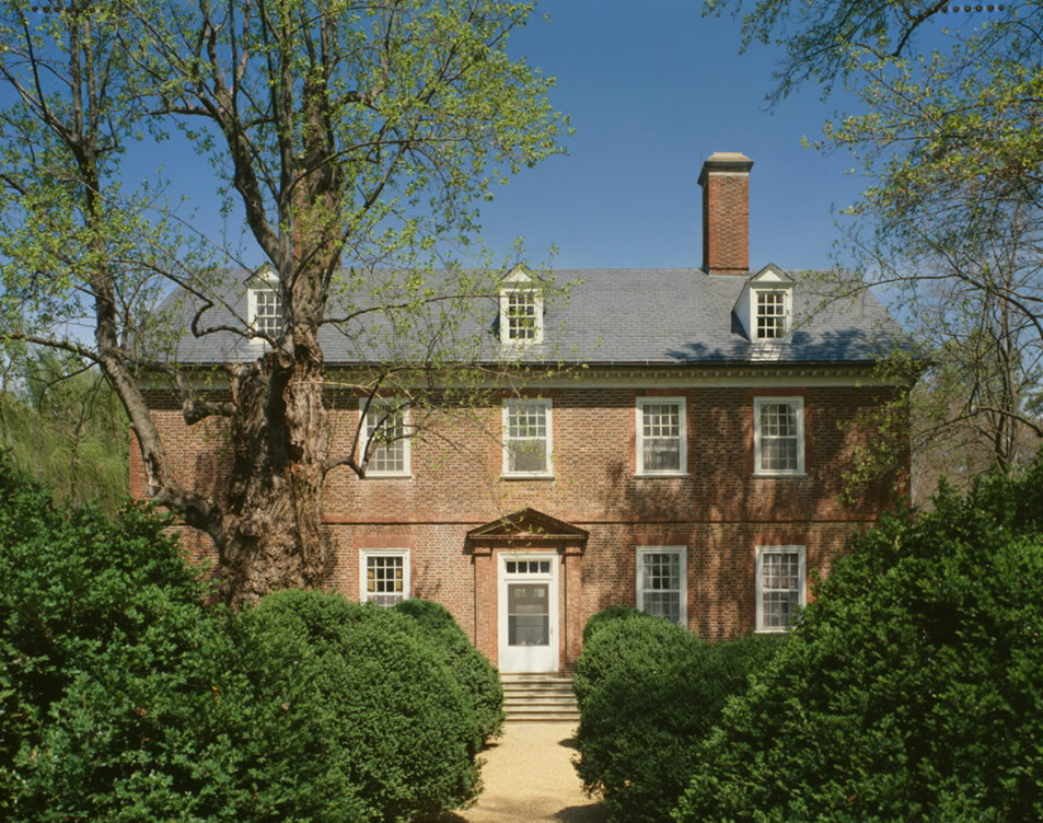 Berkeley Plantation, home of the Harrison family (two Presidents), initial construction of Georgian mansion in 1726. In Charles City County, Virginia. Building/structure dates: 1726 initial construction National Register of Historic Places NRIS Number: 71001040 Significance: Berkeley began as a settlement known as Berkeley-Hundred, patented in 1618. The property was purchased in 1722 by Benjamin Harrison IV, for whom the present house is believed to have been completed in 1726. His son, Benjamin Harrison V, born at Berkeley, was a signer of the Declaration of Independence and Governor of Virginia for 3 terms. Also born there was the signer's younger son, William Henry Harrison, 9th President. In 1862, Berkeley served as a camp and supply base for Union troops...